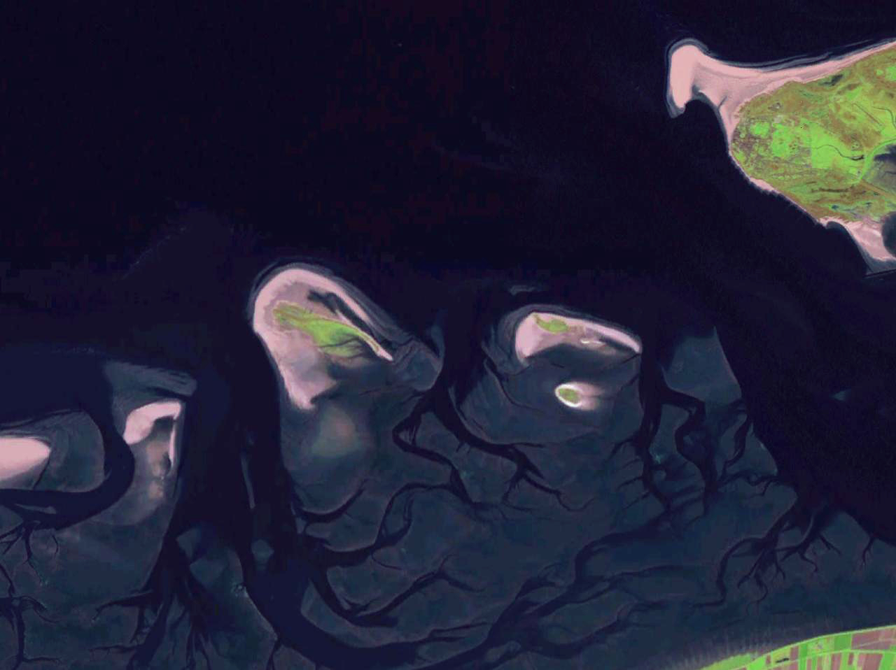 Some West Frisian Islands (Netherlands) and some East Frisian Islands (Germany), from left to right: part of Schiermonnikoog, Simonszand, Rottumerplaat, Rottumeroog (north) with Zuiderduintjes (south) and part of Borkum.